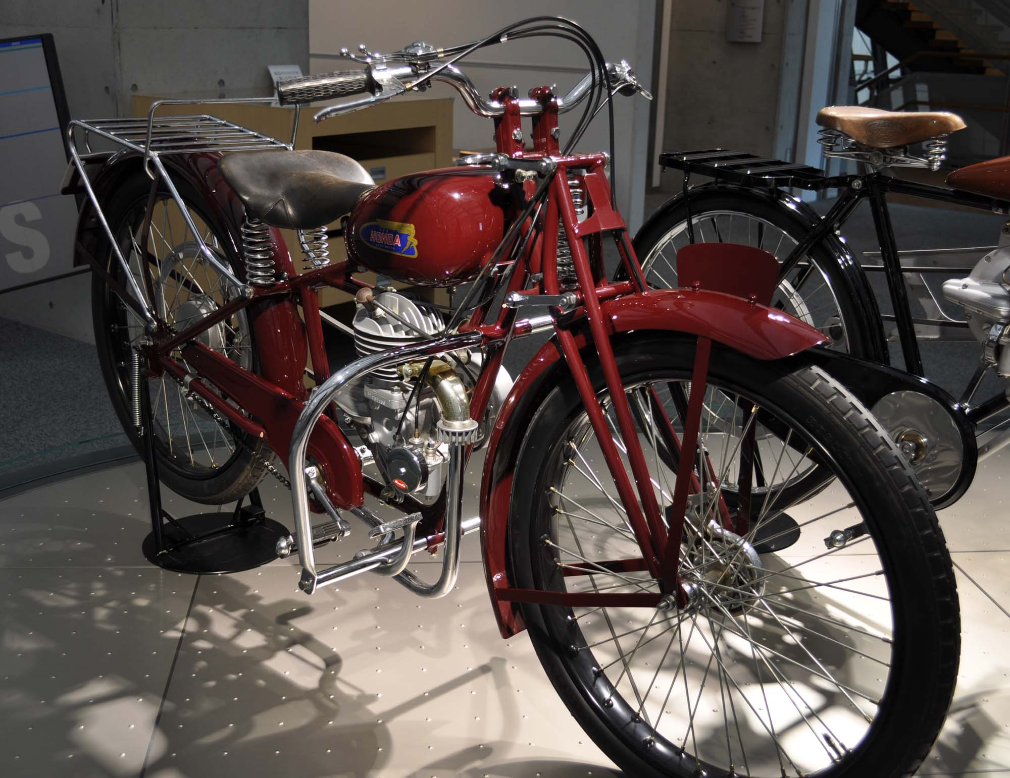 Honda model C, the first model with both engine and frame designed by Honda, produced in 1949.